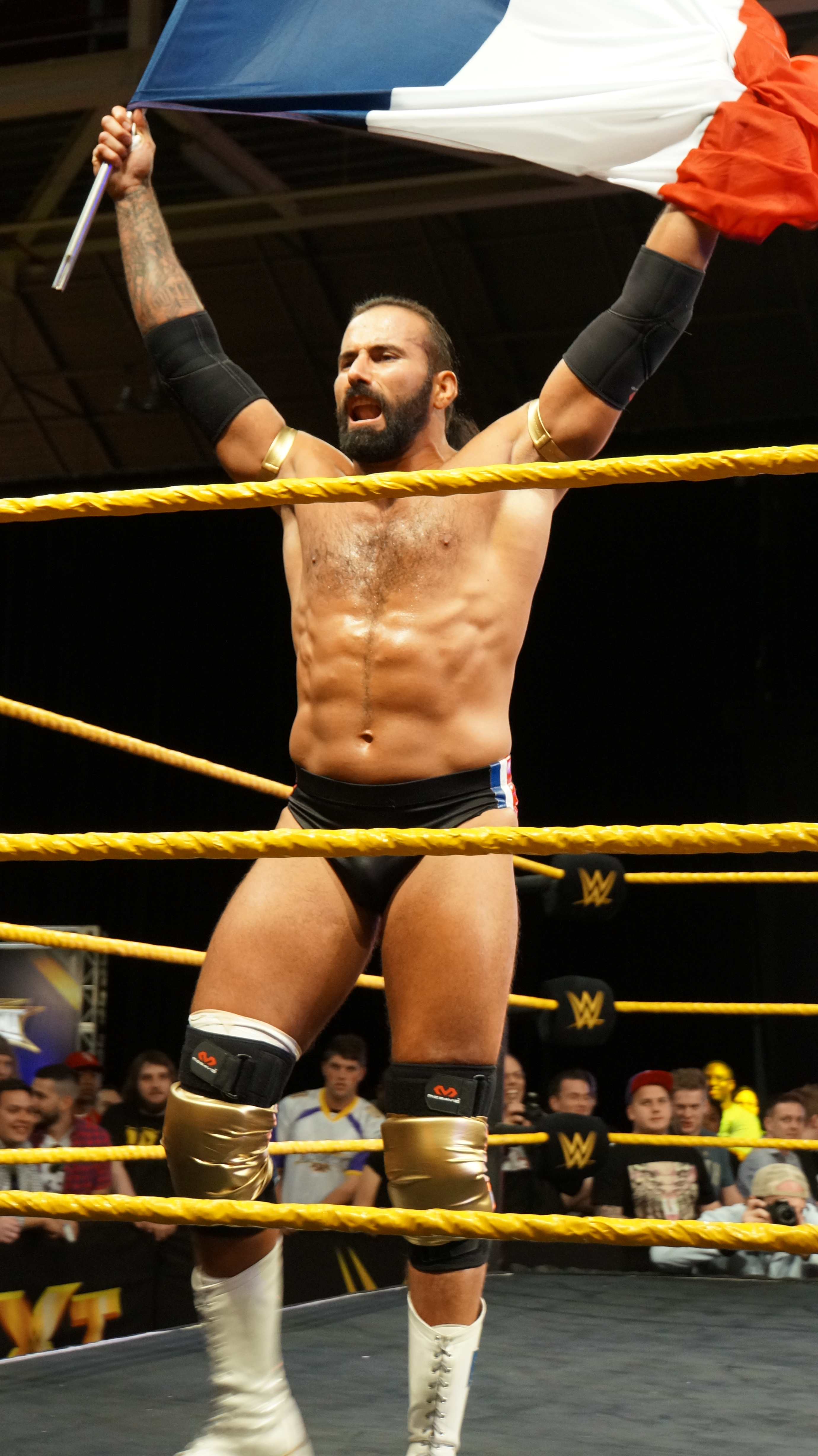 Sylvester Lefort at WrestleMania Axxess in April 2014.